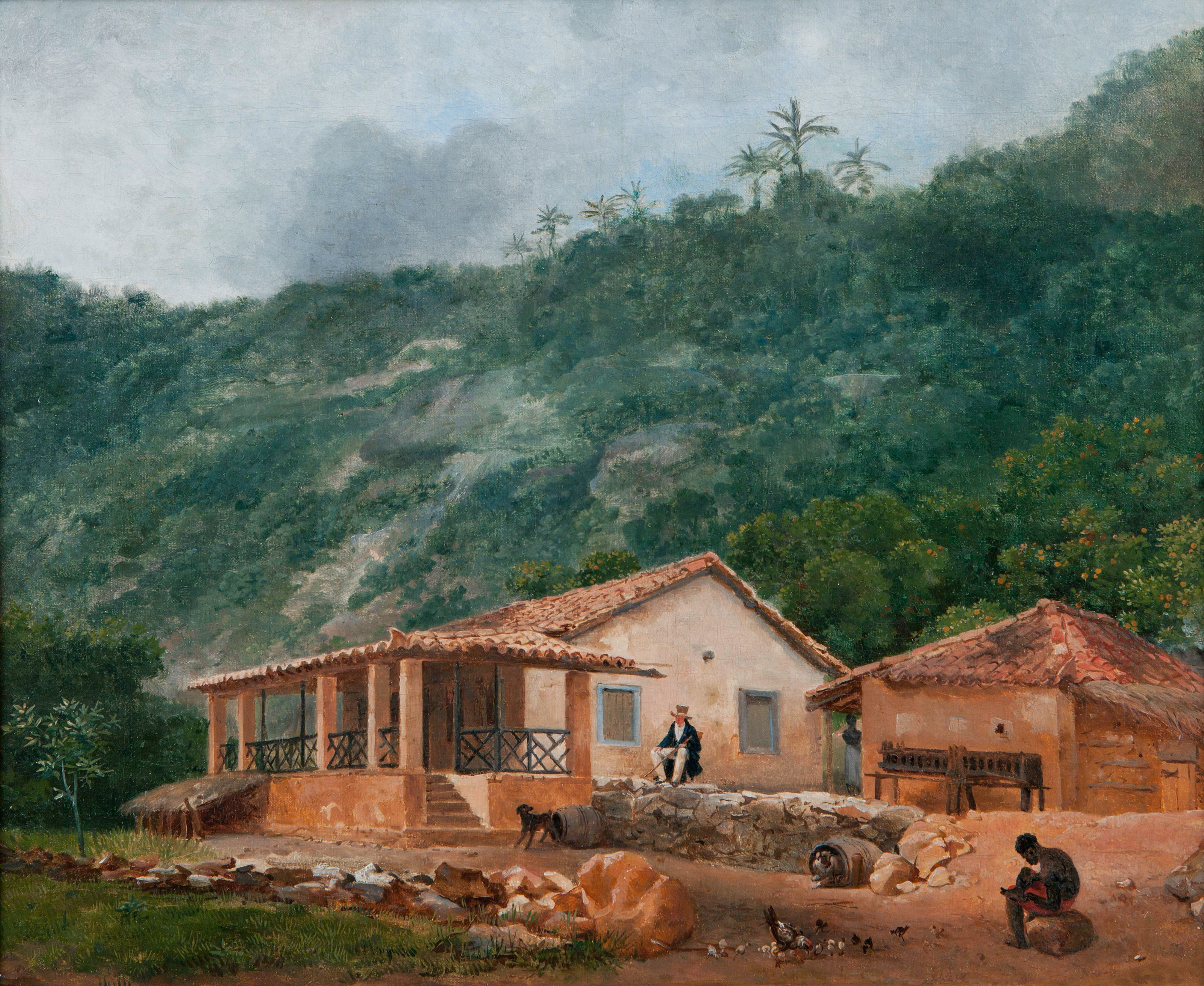 Generaal Dirk van Hogendorp op Novo Sion oil on canvas 36,5 x 45 cm circa 1820